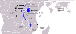 Descriptions en français, then in English. Lacs – lakes : A — lac Albert – lake Albert E — lac Édouard – lake Edward K — lac Kivu – lake Kivu T — lac Tanganyika – lake Tanganyika Y — lac Kyoga – lake Kyoga V — lac Victoria – lake Victoria M — lac Malawi (lac Niassa) – lake Malawi (lake Nyasa) Pays – countries : UG — Ouganda – Uganda KE — Kenya – Kenya CD — République démocratique du Congo – Democratic Republic of the Congo RW — Rwanda – Rwanda BI — Burundi – Burundi TZ — Tanzanie – Tanzania ZM — Zambie – Zambia MW — Malawi – Malawi MZ — Mozambique – Mozambique See also